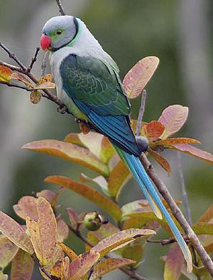 A male Malabar Parakeet (also known as Blue-winged Parakeet) near Bhadra Tiger Reserve, Karnataka, India.